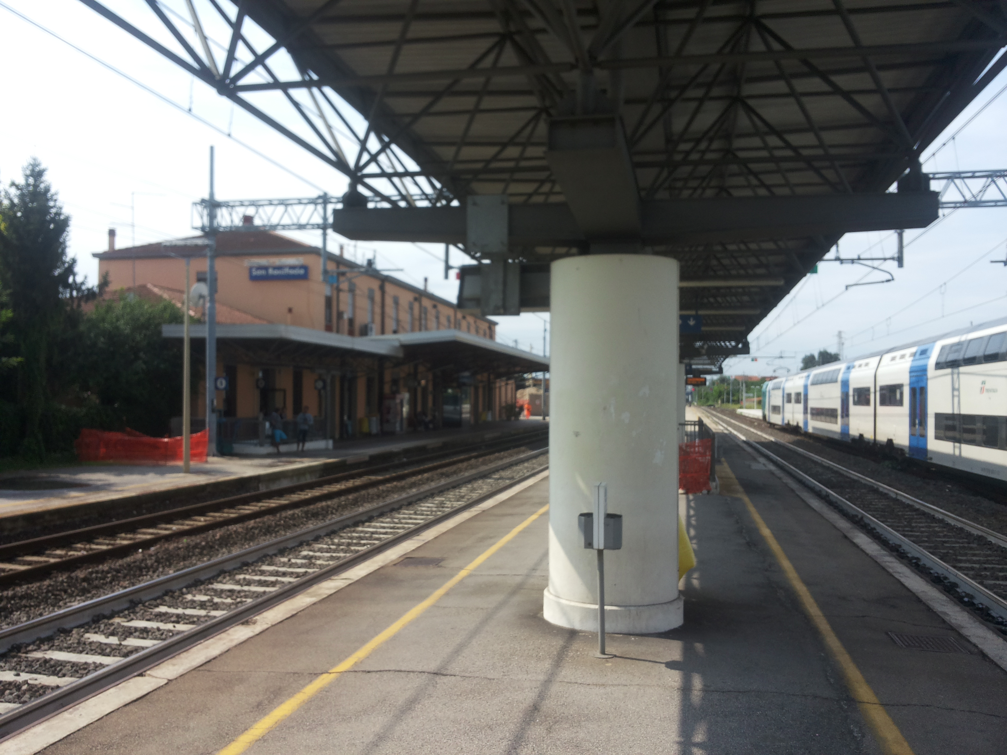 San Bonifacio train station in Verona's province (Italy)